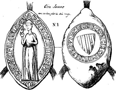 Beatrix of Provence